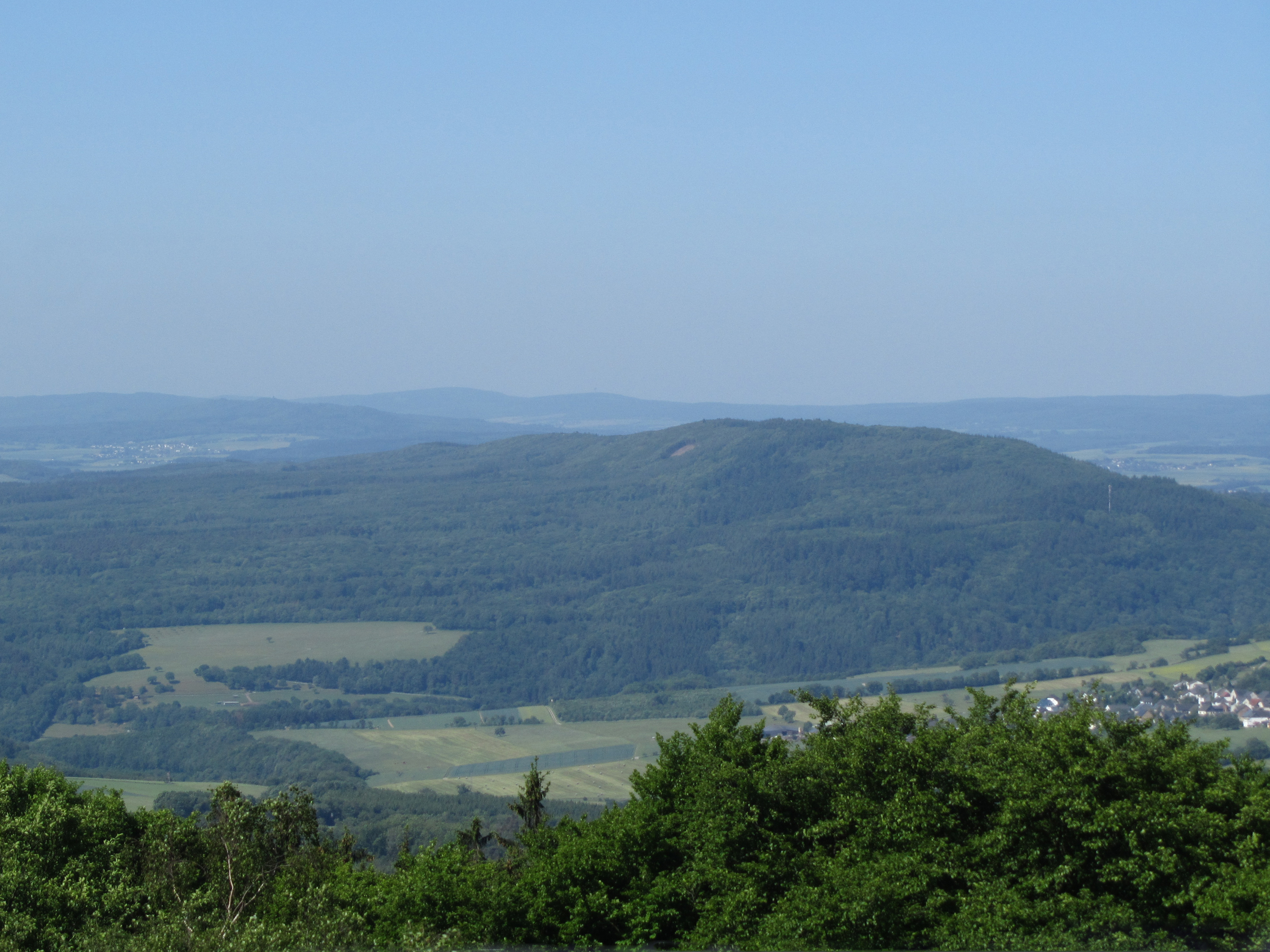 View from the Alteburg-Tower to South-West. See the Annotations for more information.